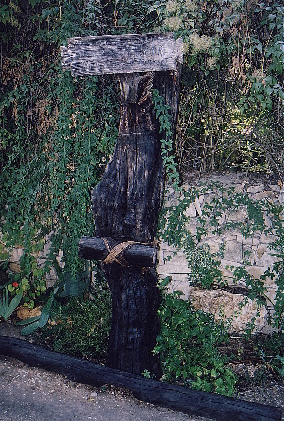 Tree-Cross Crux immisa